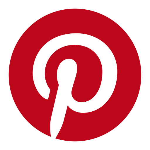 Pinterest logo.